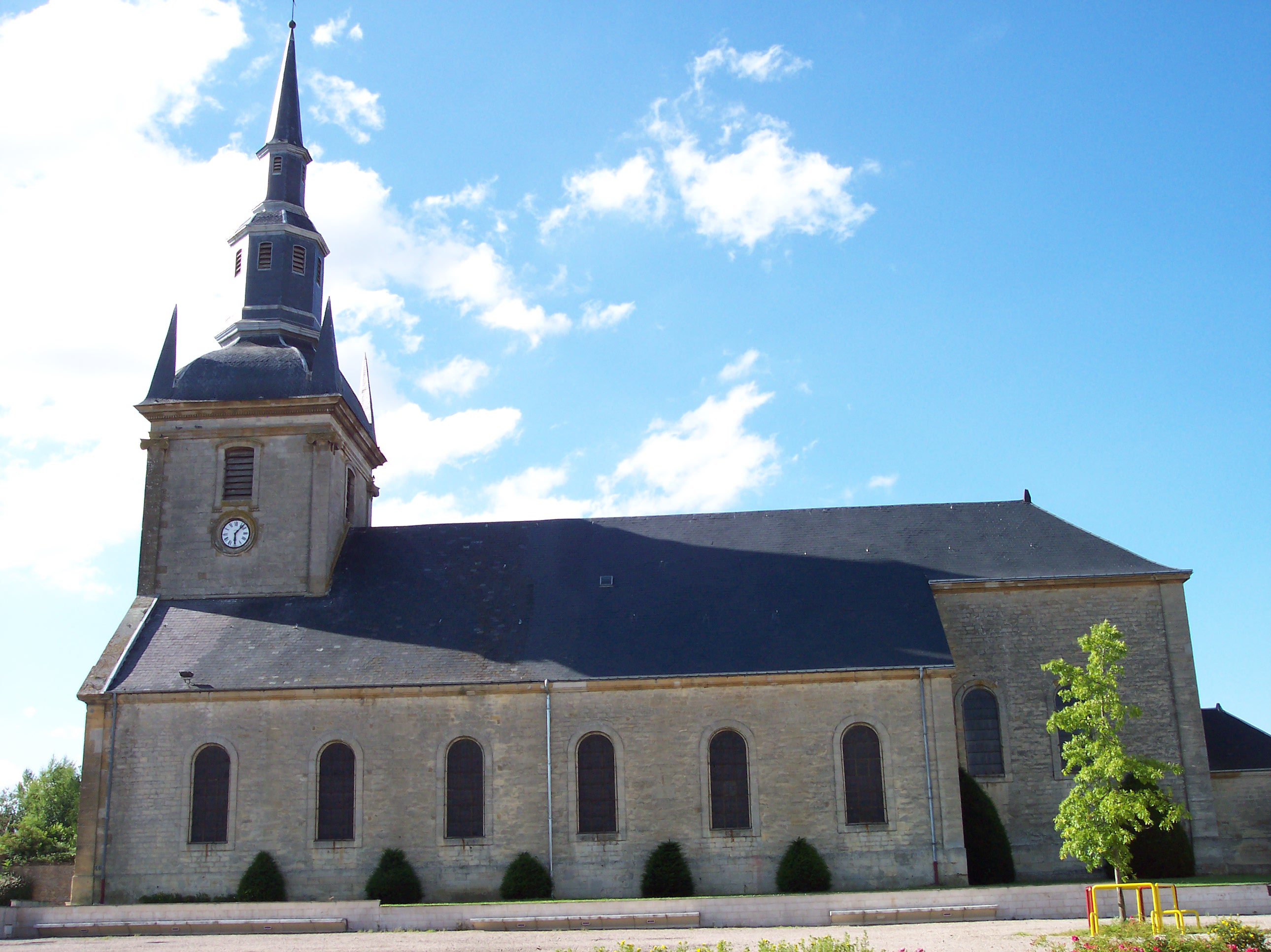 Church in Laneuville-sur-Meuse, Meuse (département), Lorraine, France.